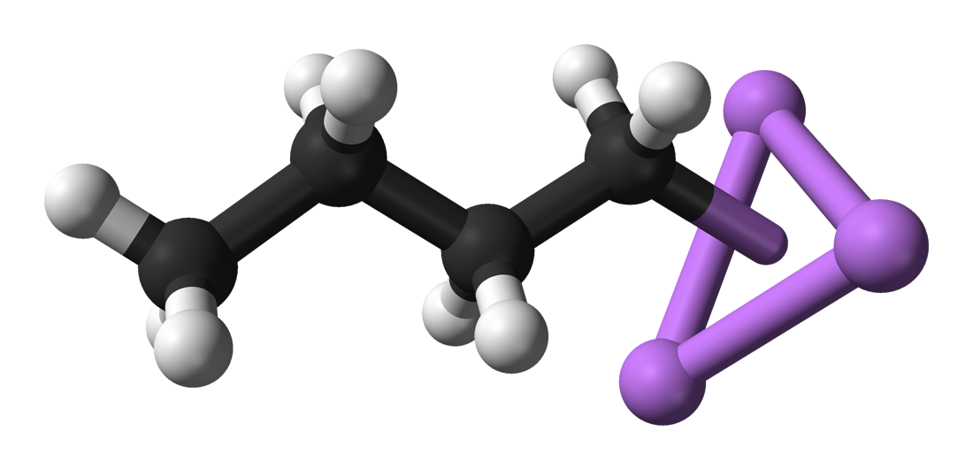 Ball-and-stick model of one butyl chain bonded to three lithiums in the crystal structure of the butyllithium hexamer, (C4H9Li)6. X-ray crystallographic data from T. Kottke, D. Stalke (September 1993). "Structures of Classical Reagents in Chemical Synthesis: (nBuLi)6, (tBuLi)4, and the Metastable (tBuLi · Et2O)2". Angew. Chem., Int. Ed. Engl. 32 (4): 580-582.